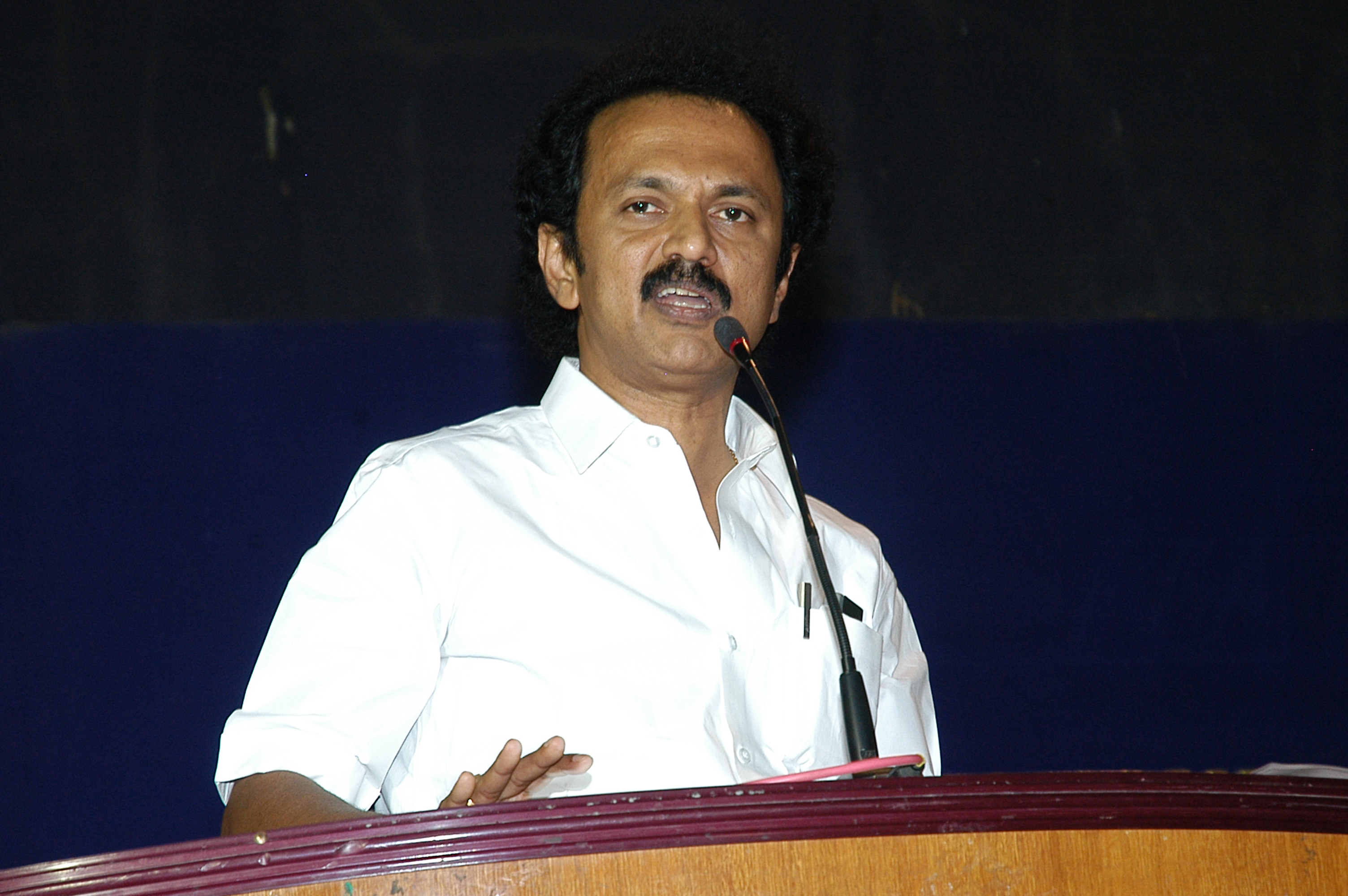 M.K.Stalin addressing students of Dr.MGR-Janaki College of Arts and Science for Women